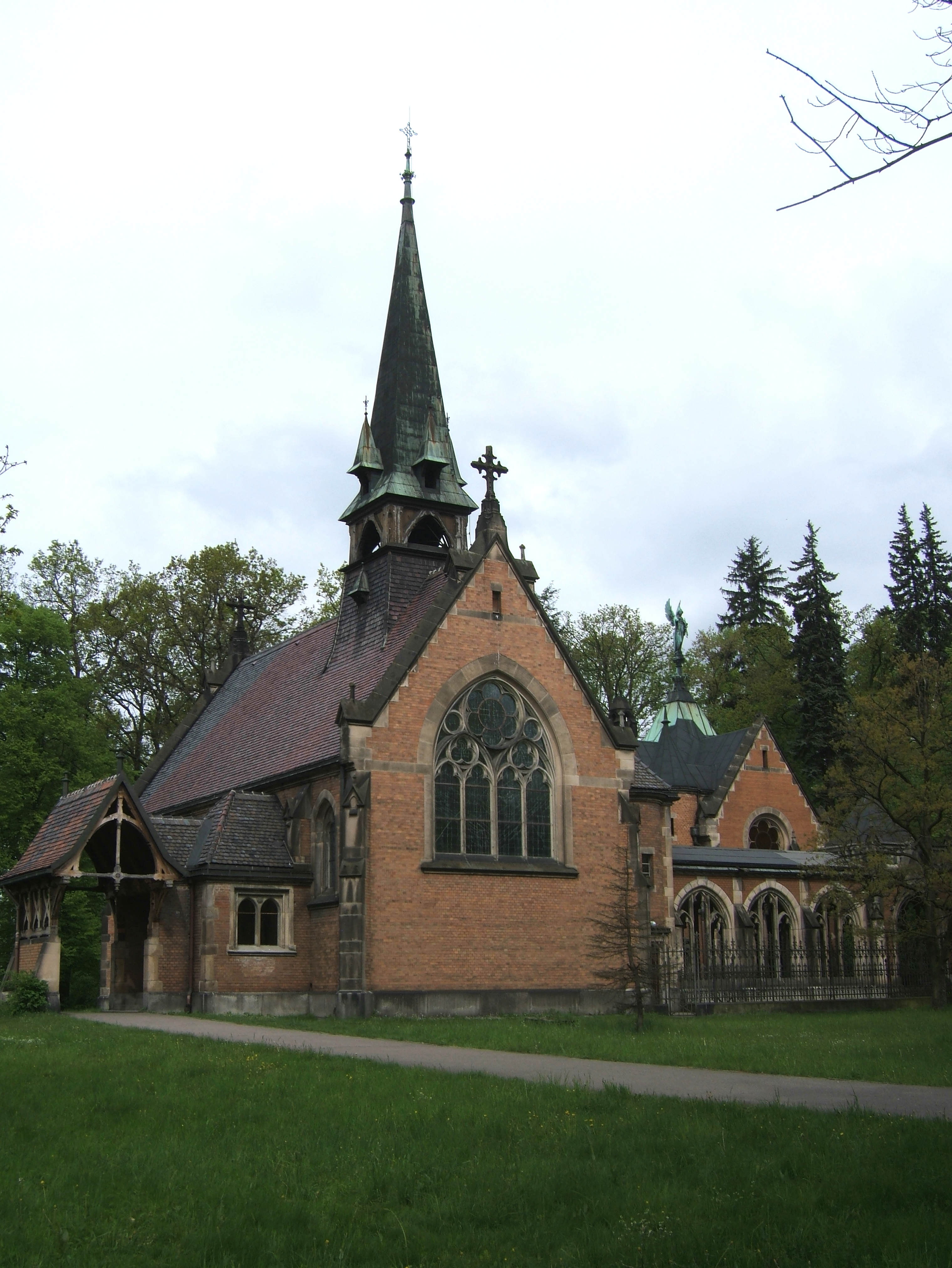 Mausoleum of the Donnersmarck family in the park of Świerklaniec (19th century)